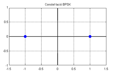 Constellation diagram for BPSK modulation